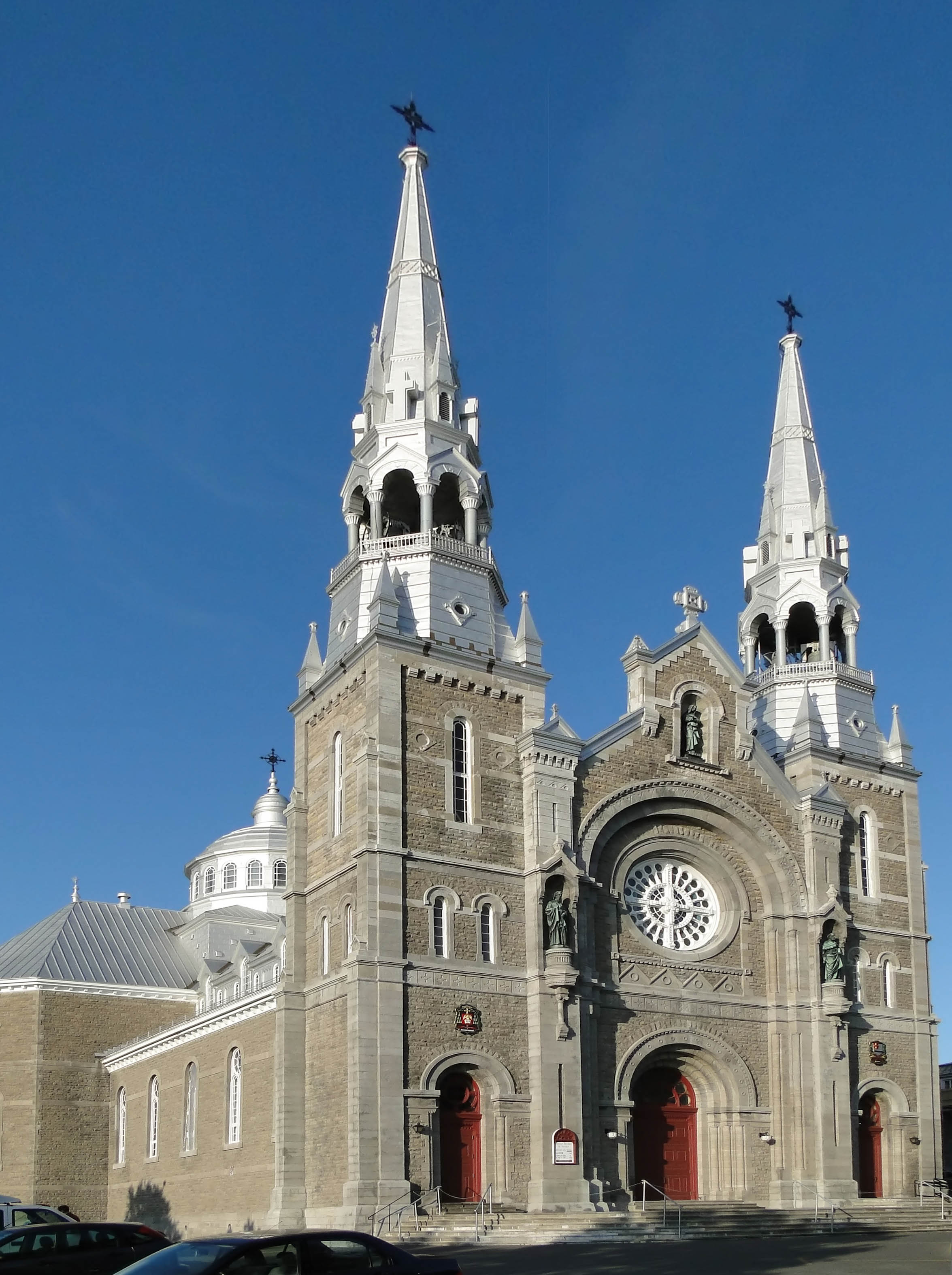 Sainte-Anne de Varennes Basilica (1887), Varennes, province of Quebec, Canada